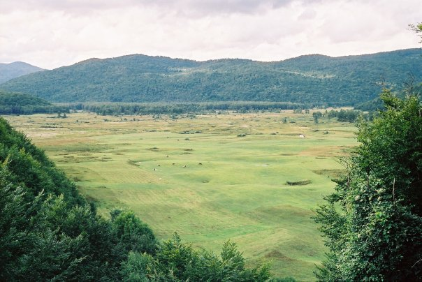 Dreznicko polje, Croatia